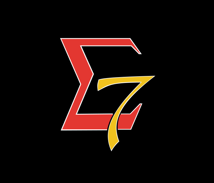 Mercury-Atlas 8 insignia, the Sigma 7